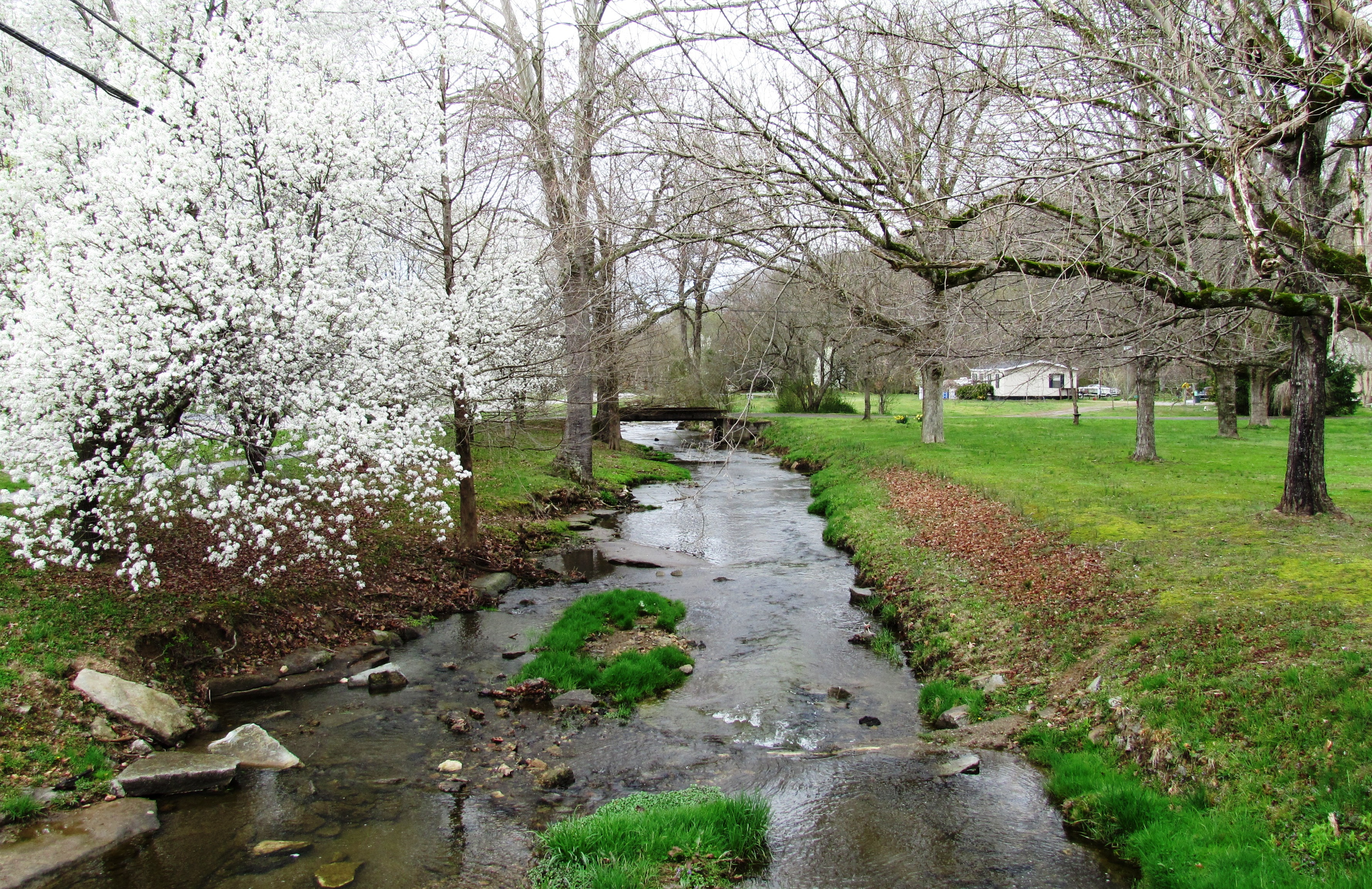 Salt Lick Creek in Red Boiling Springs, Tennessee, USA.